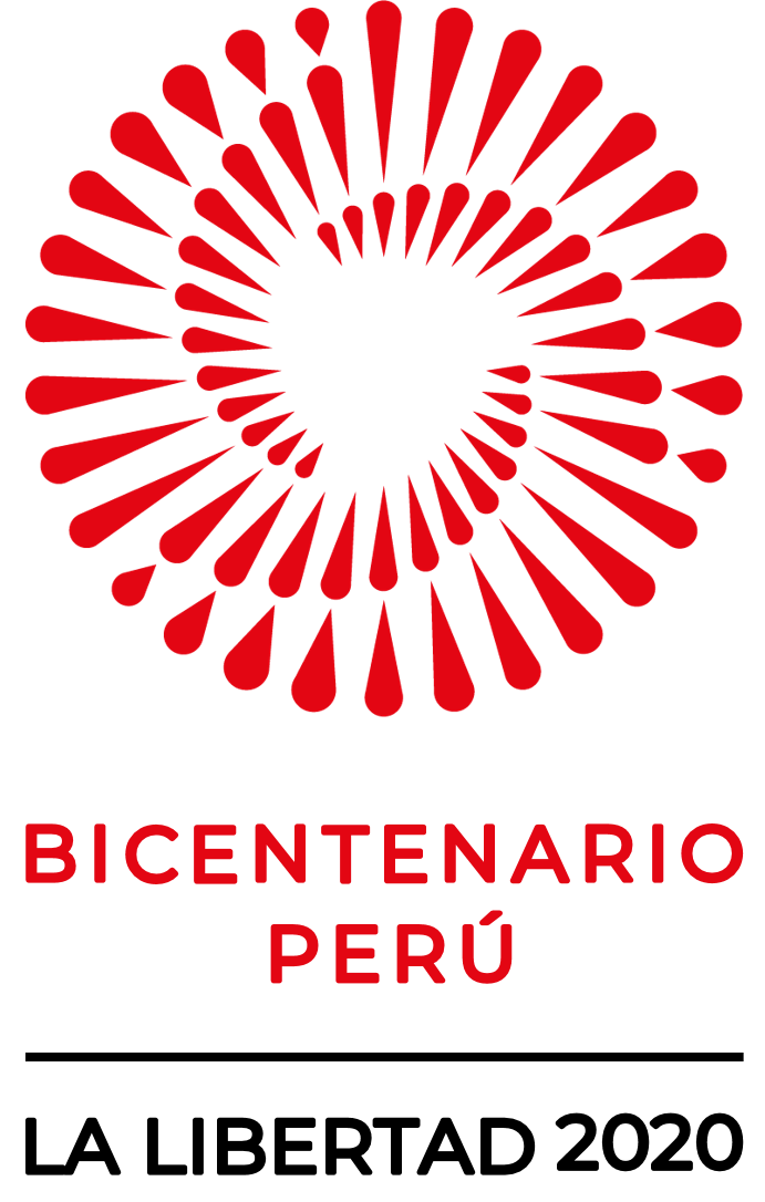 Logo of the Bicentennial 2020 in La Libertad, Peru.